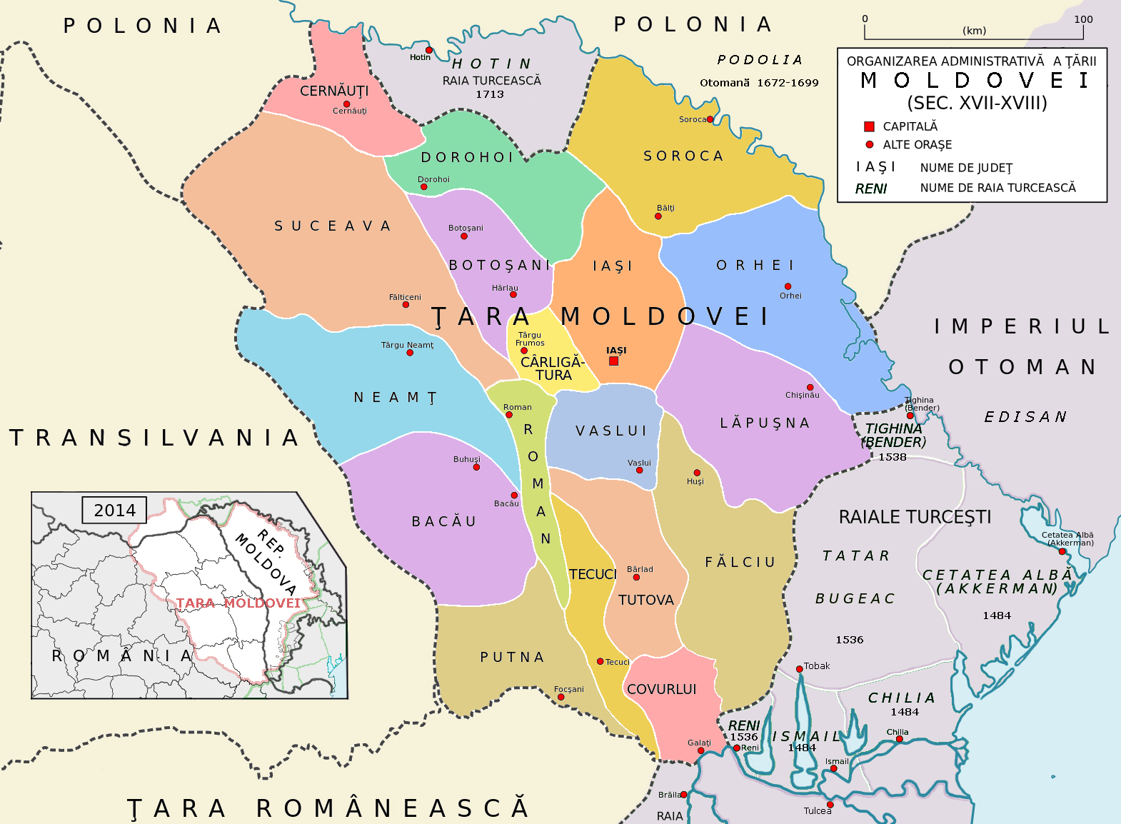 Counties of Moldavia 1601-1718 since Dimitrie Cantemir's map and description, derivative work since Arnold Platon's [1]